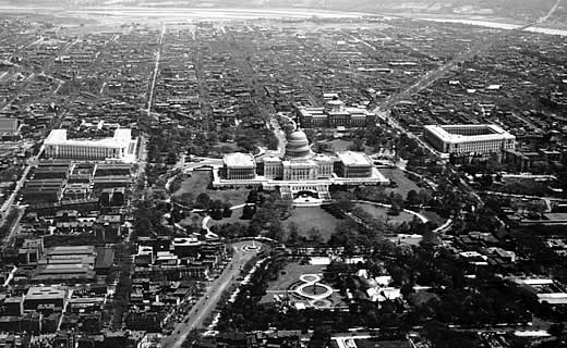 Aerial View of the United States Capitol Complex in en:1923 from the West.